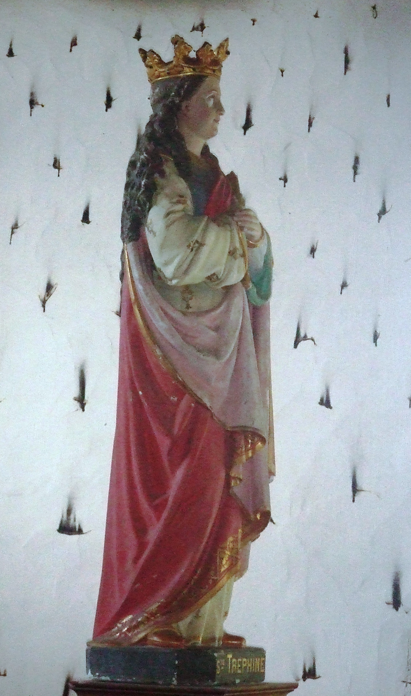 Chapel in Pontivy, Brittany with statue of St Trephine